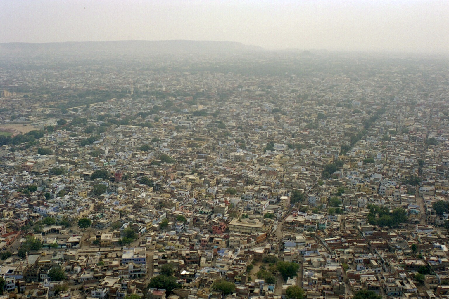 Bird view of Jaipur, Rajasthan, India. This photo is taken from Nahargarh Fort.